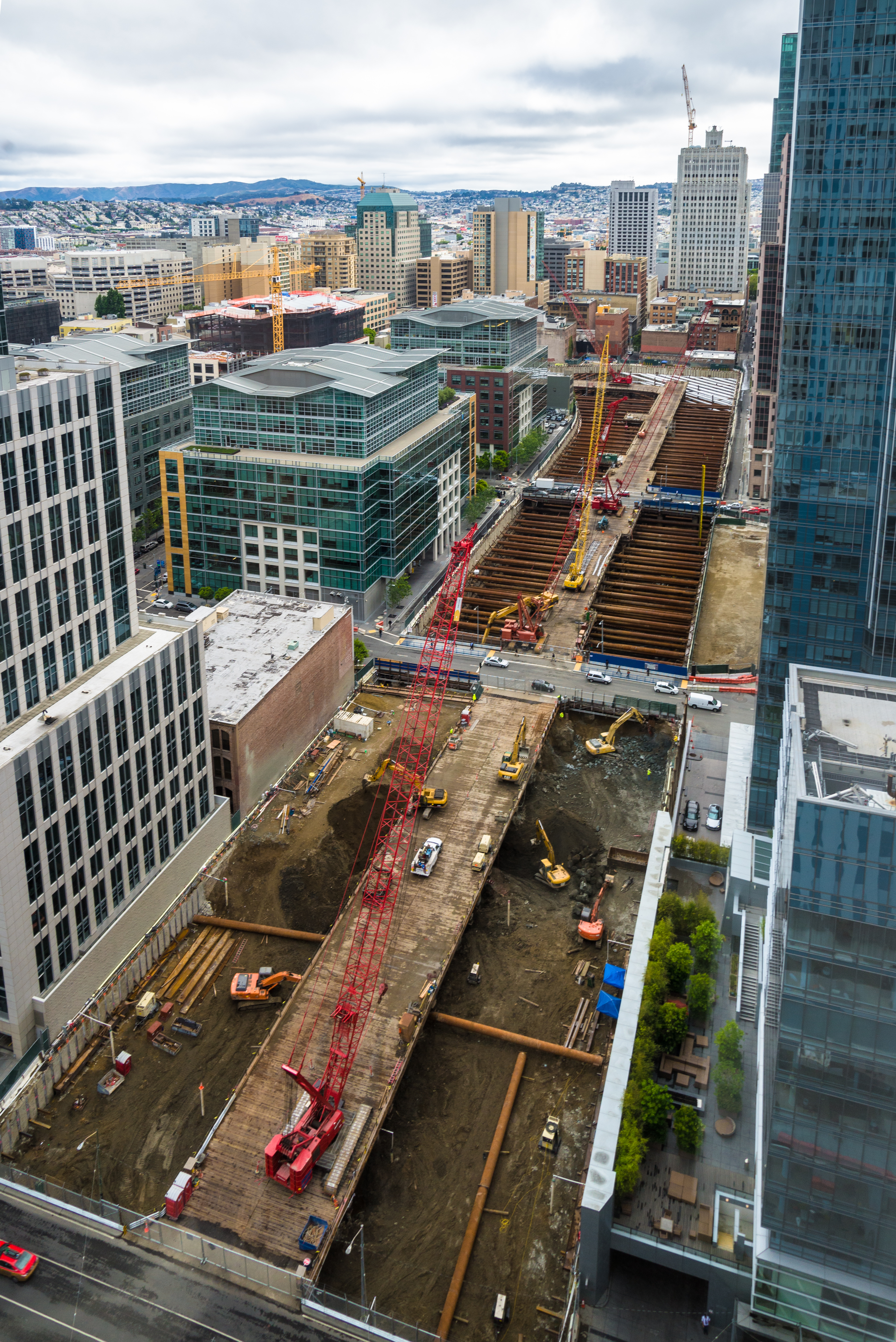 View of the under-construction Transbay Transit Center from above